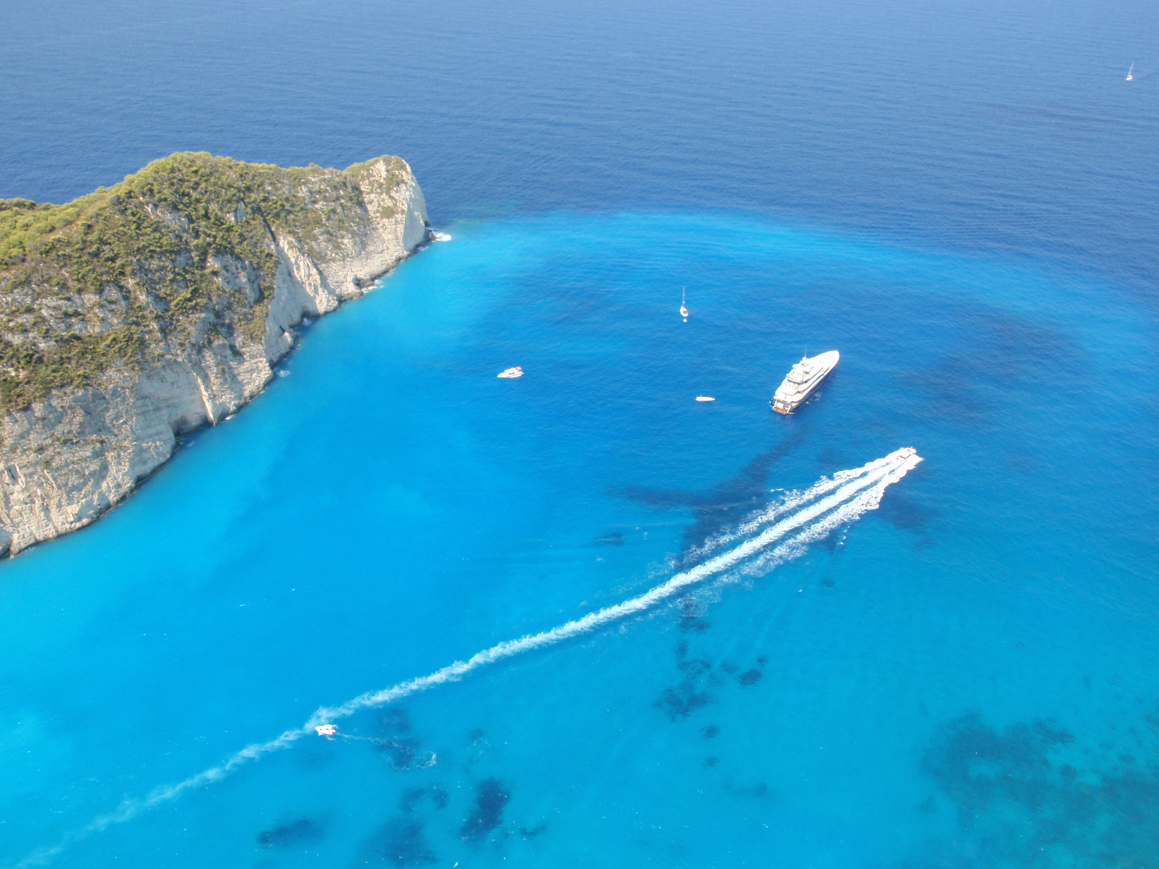 This is a photography of Natura 2000 protected area with ID GR2210001